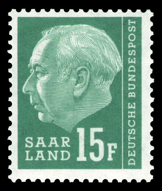 Saarland stamp series (II) of Theodor Heuss, president of Germany